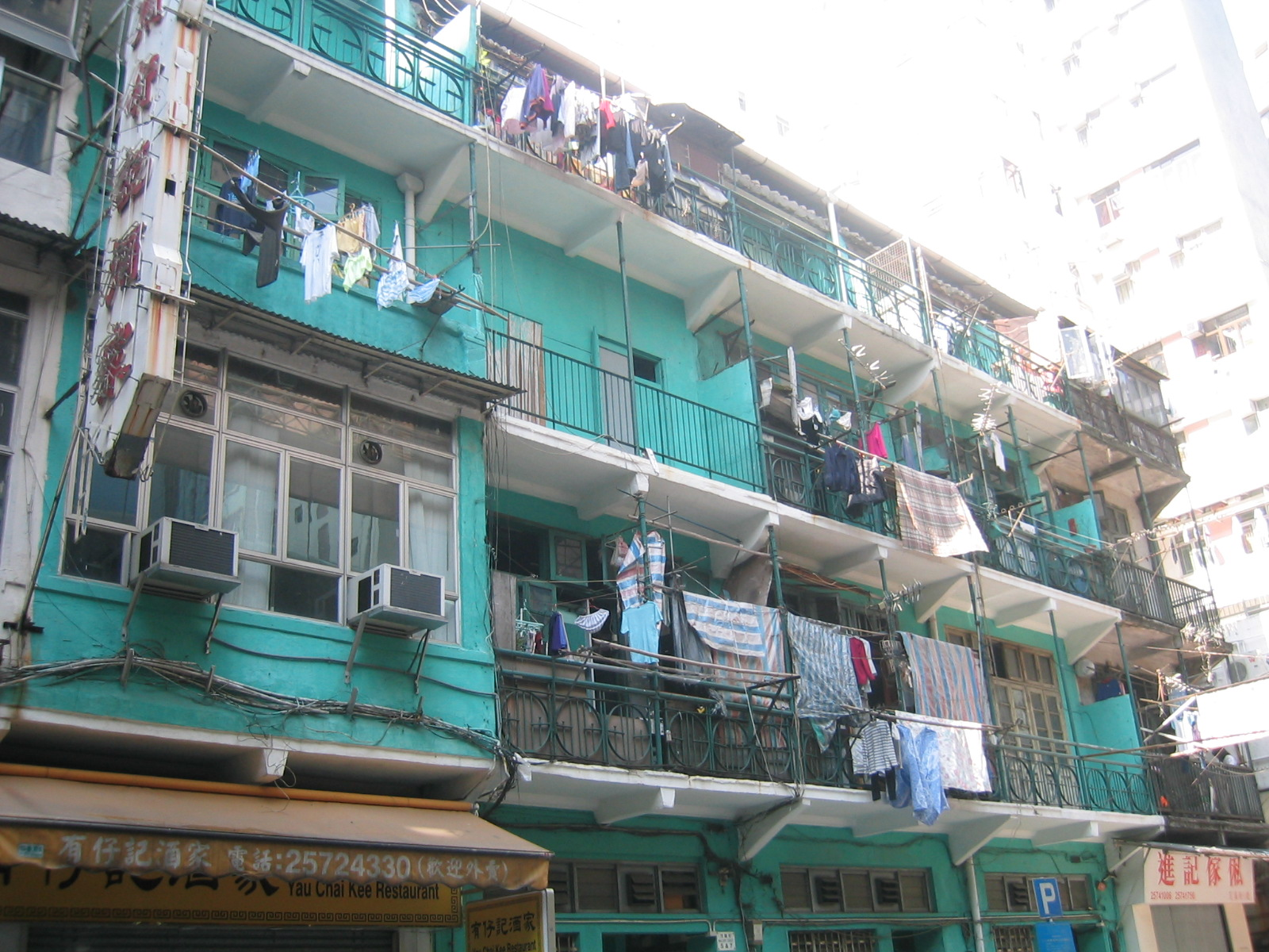 The old flats known as "Green House" by the locals in Wan Chai, Hong Kong